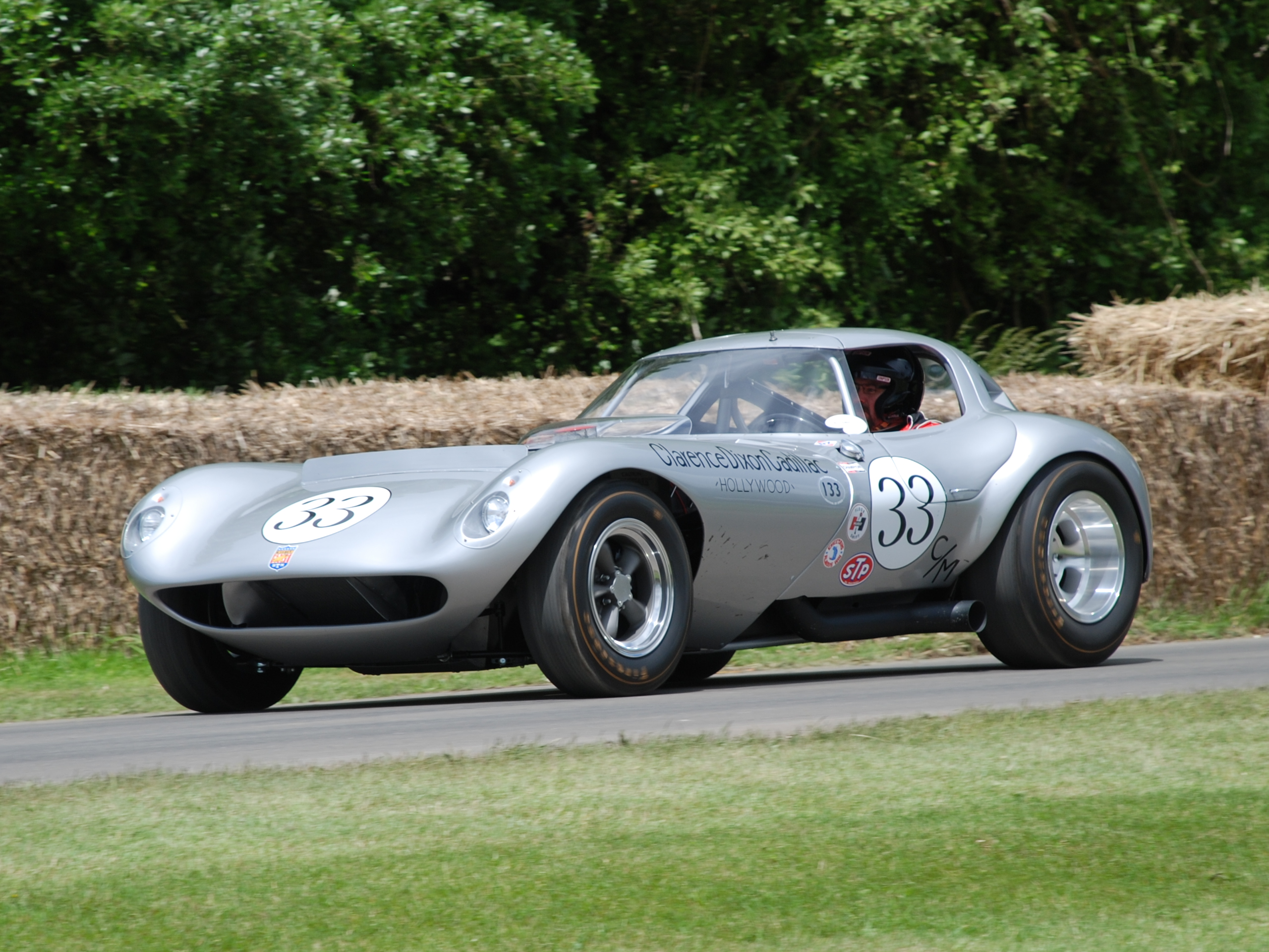 Goodwood Festival of Speed - 2016 Goodwood House England Friday 24th June 2016